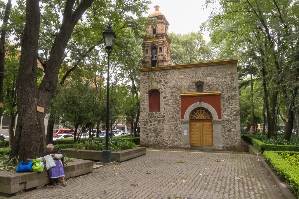 The church of San Lorenzo Xochimanca, aka San Lorenzo Martír, in Colonia del Valle, Mexico City.